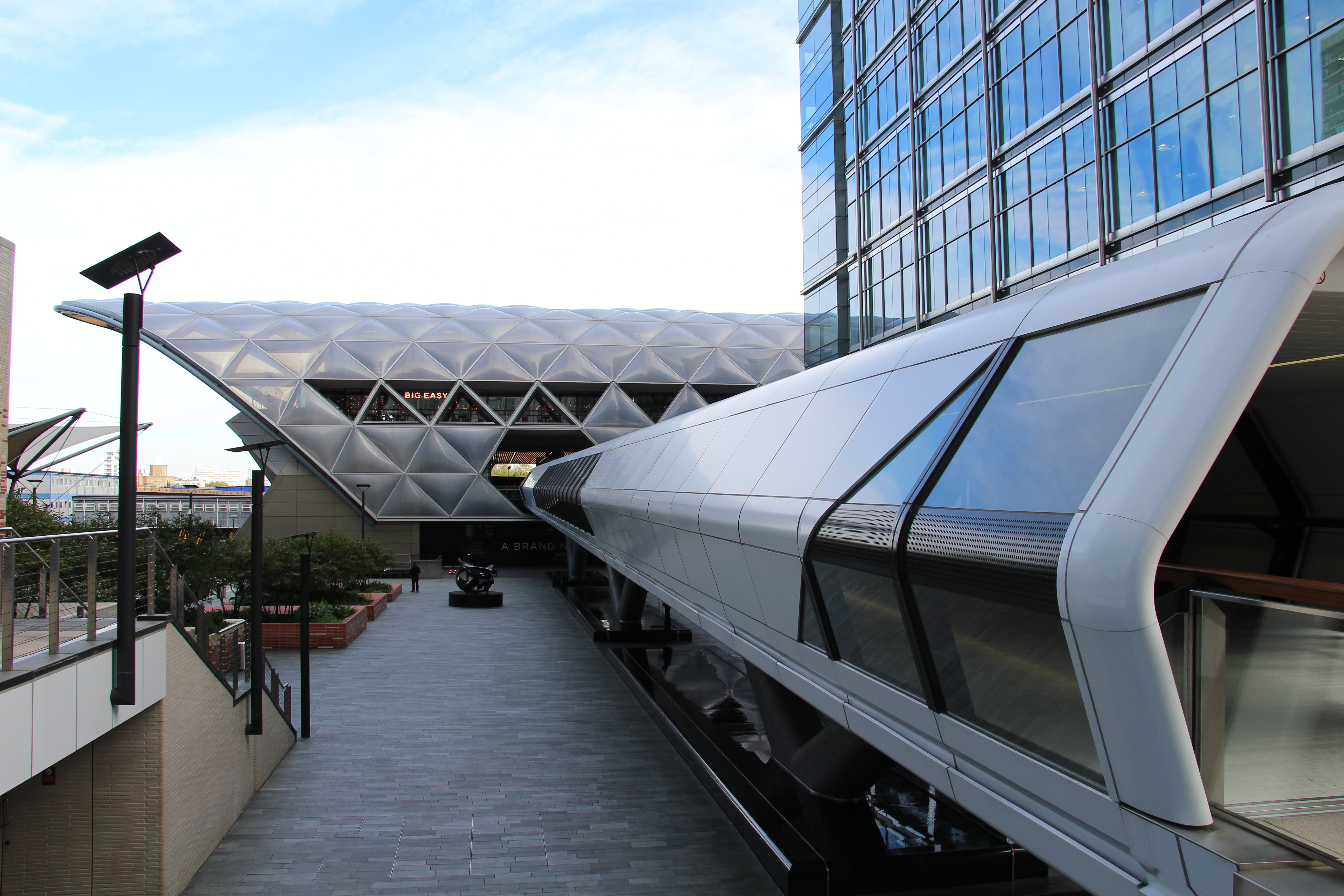 N. Colonnade Tropical roof gardens and a leisure complex seated above the new Crossrail station at Canary Wharf. Arch. Foster + Partners 2008-15.